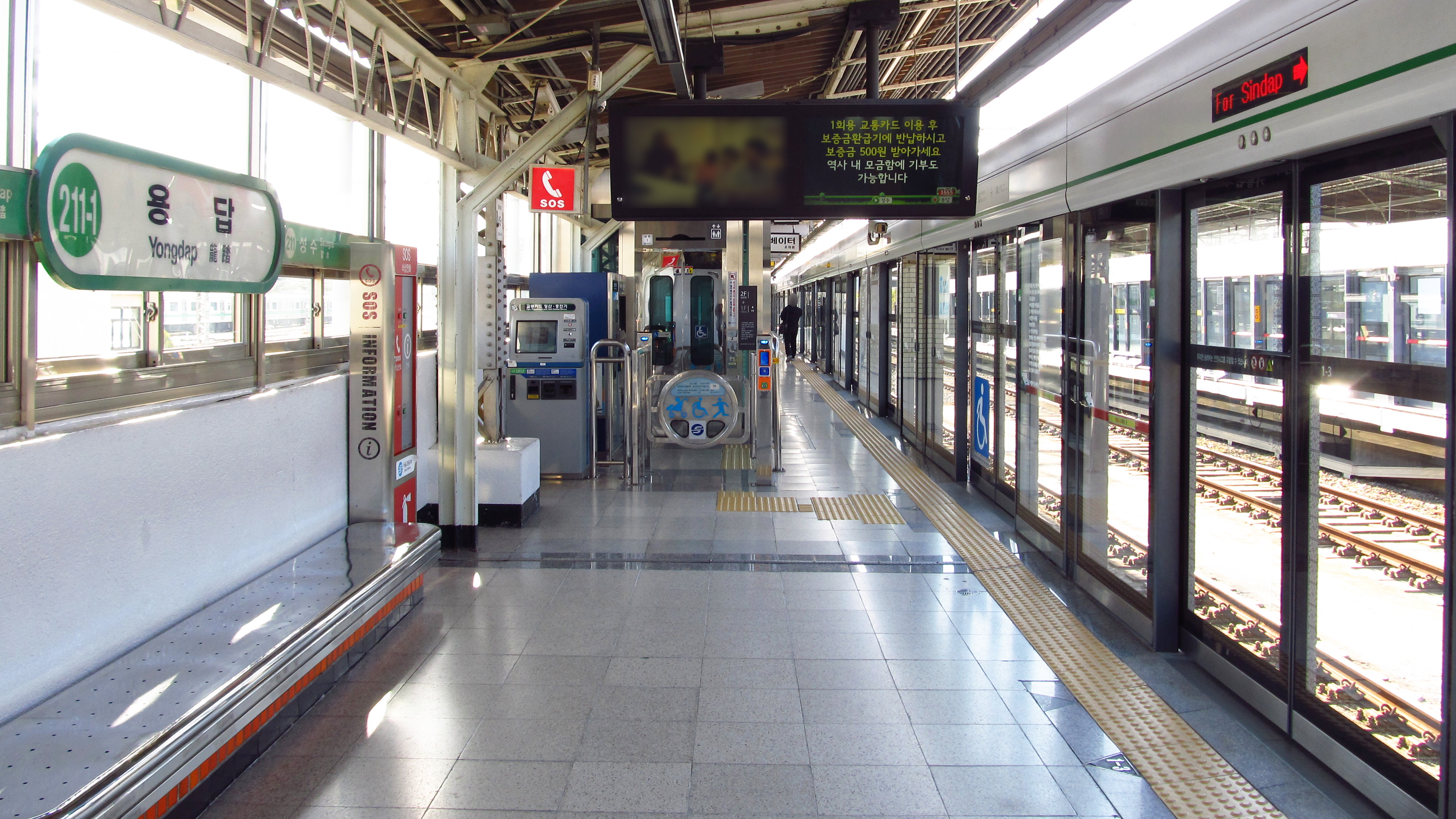 The platform at Yongdap Station on Seoul Subway Line 2 in Seongdong-gu, Seoul, Republic of Korea(South Korea)